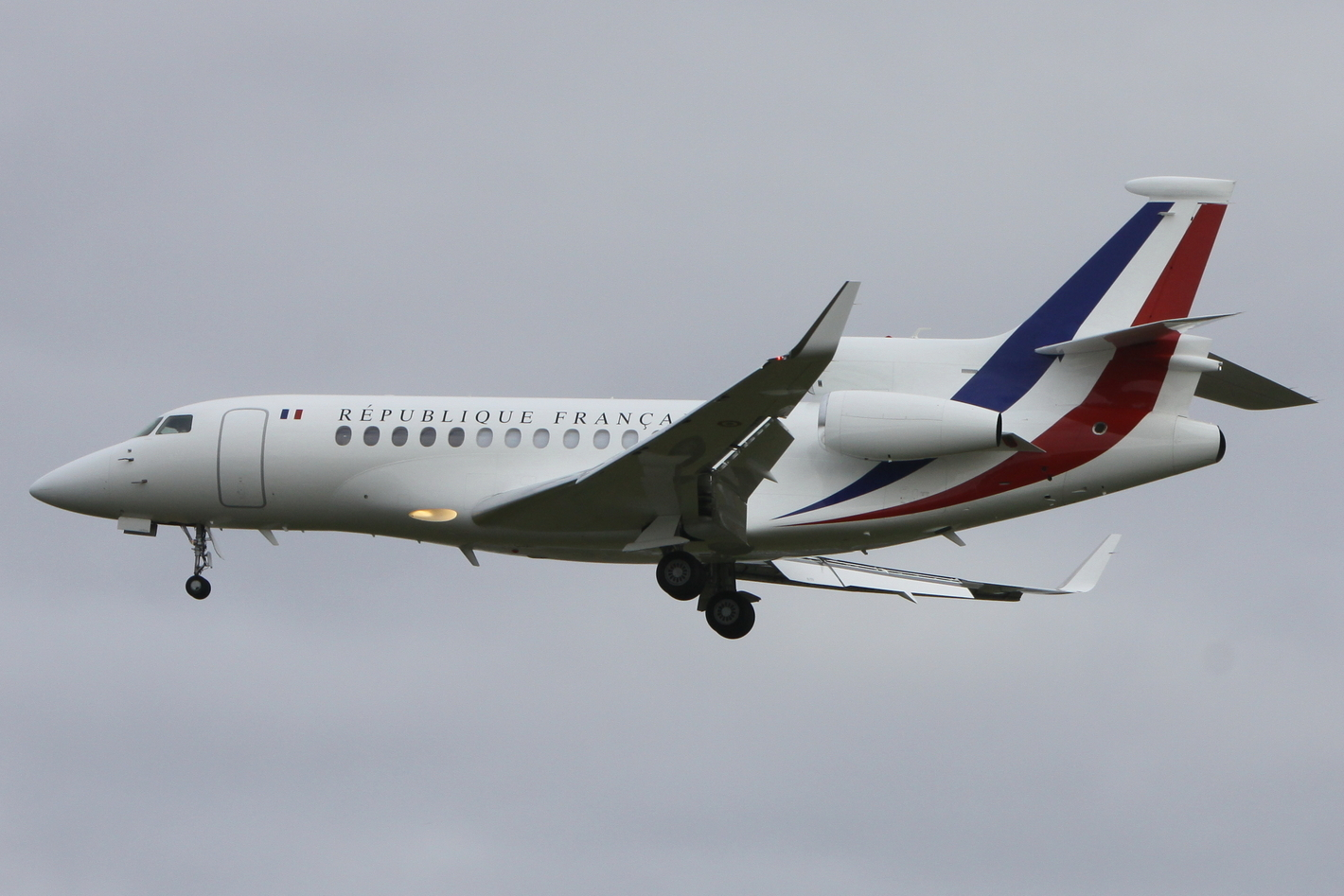 Picture of F-RAFB taken at Toulouse-Blagnac Airport (LFBO) in France.